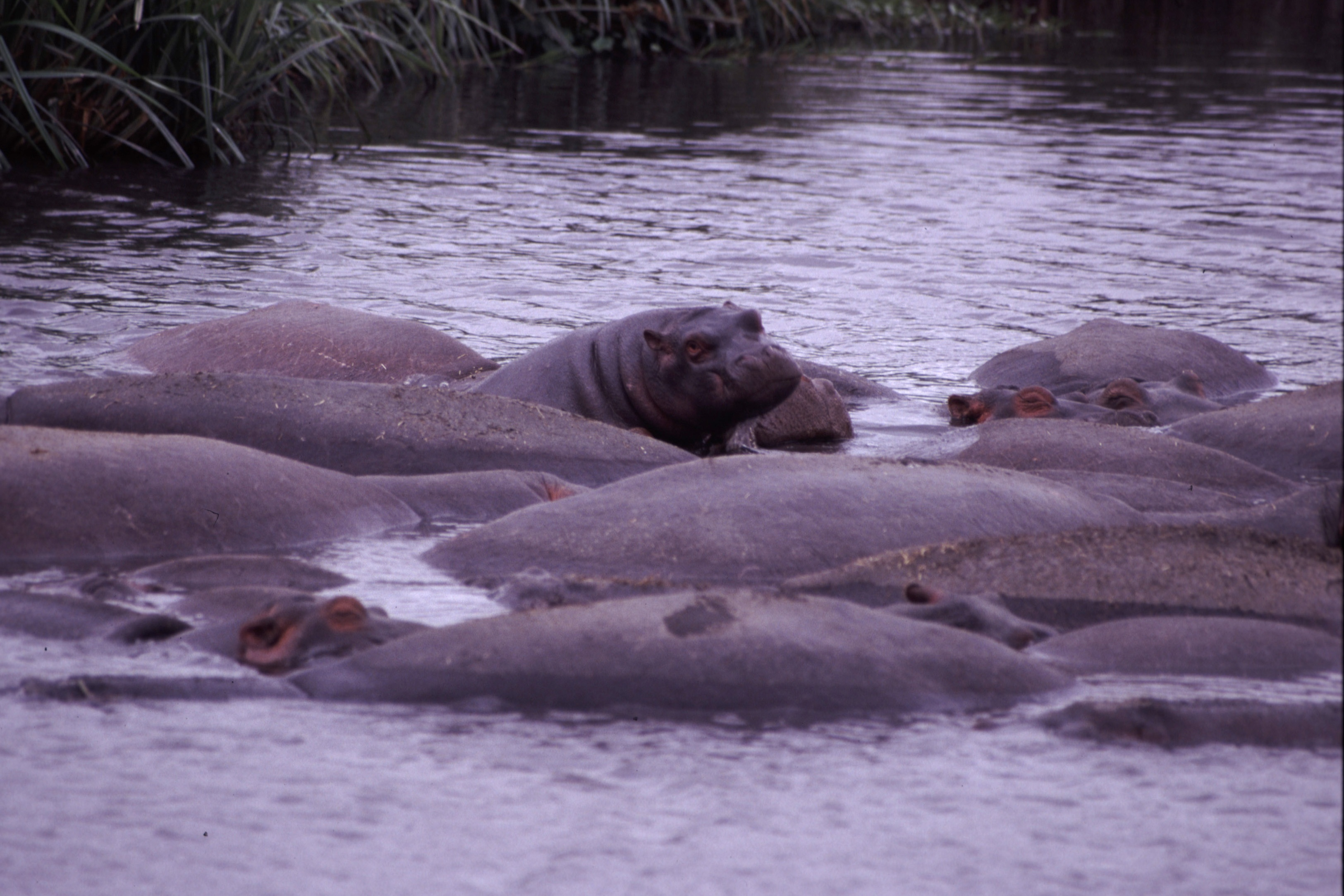 Curious young hippos looks at the tourists. Taken on safari in Tanzania.